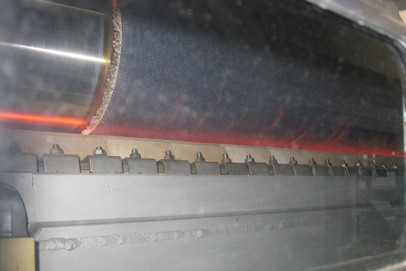 Singeing process in Denim fabric.